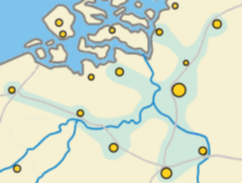 The late medieval economic center of the Low Countries; the city of Antwerp.